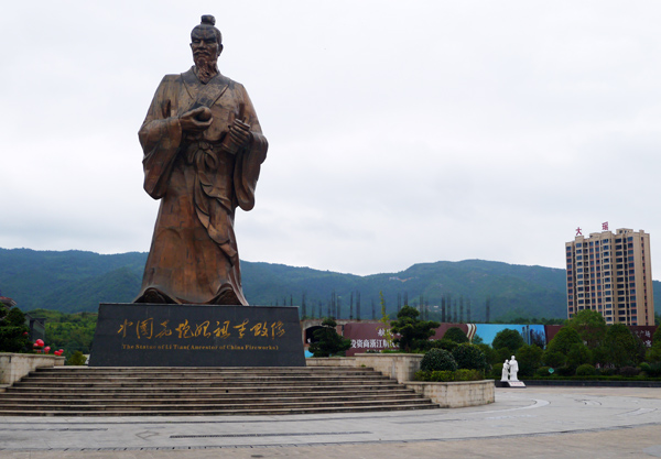 statue of Li Tian